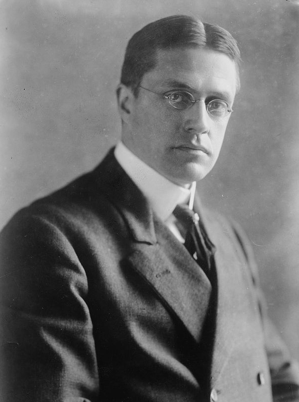 Bain News Service,, publisher. William Draper Lewis in 1915 [between ca. 1910 and ca. 1915] 1 negative : glass ; 5 x 7 in. or smaller. Notes: Title from unverified data provided by the Bain News Service on the negatives or caption cards. Forms part of: George Grantham Bain Collection (Library of Congress). Format: Glass negatives. Repository: Library of Congress, Prints and Photographs Division, Washington, D.C. 20540 USA, General information about the Bain Collection is available at Persistent URL: Call Number: LC-B2- 3046-2